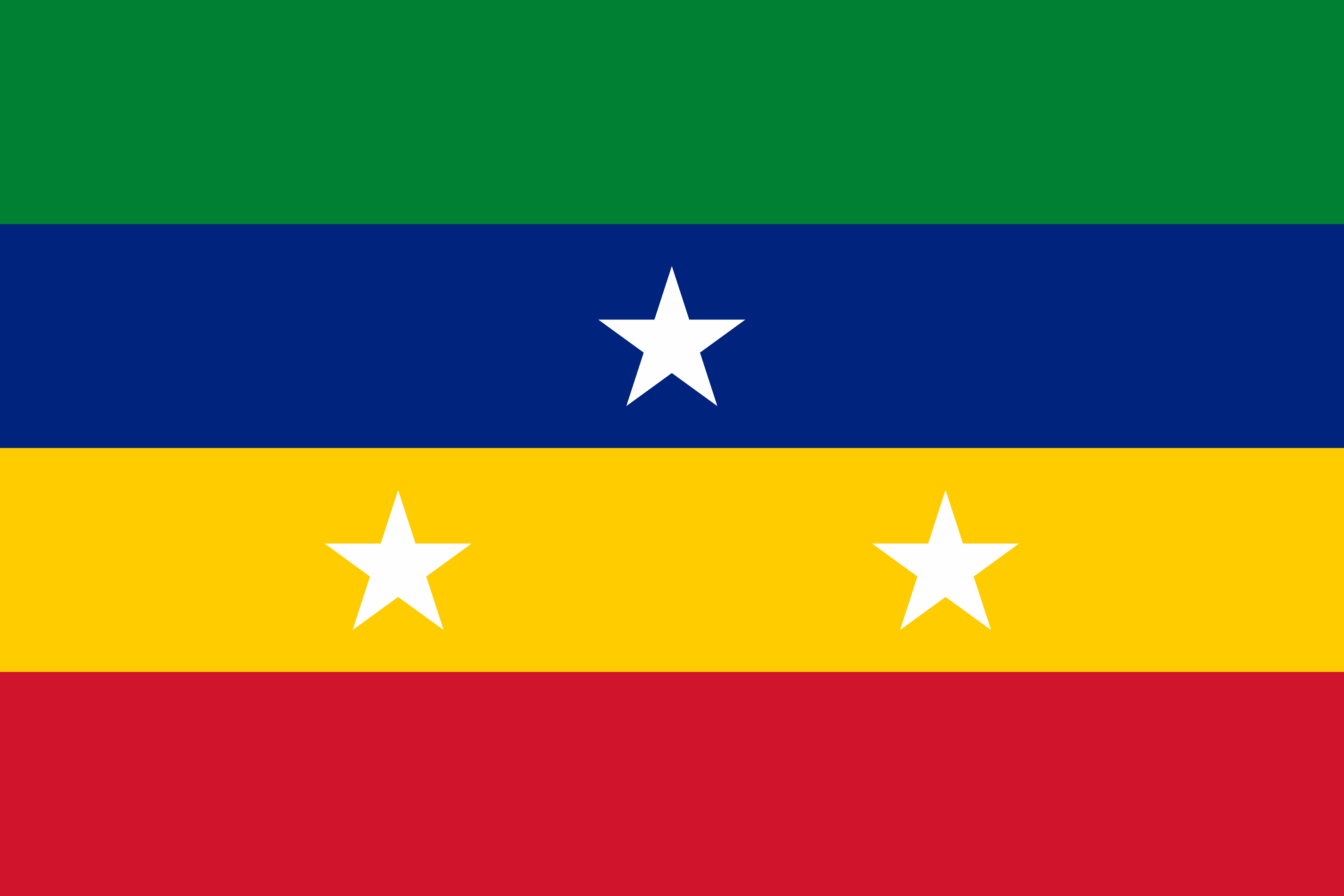 Flag of the Pedro Camejo Municipality, Apure State, Venezuela